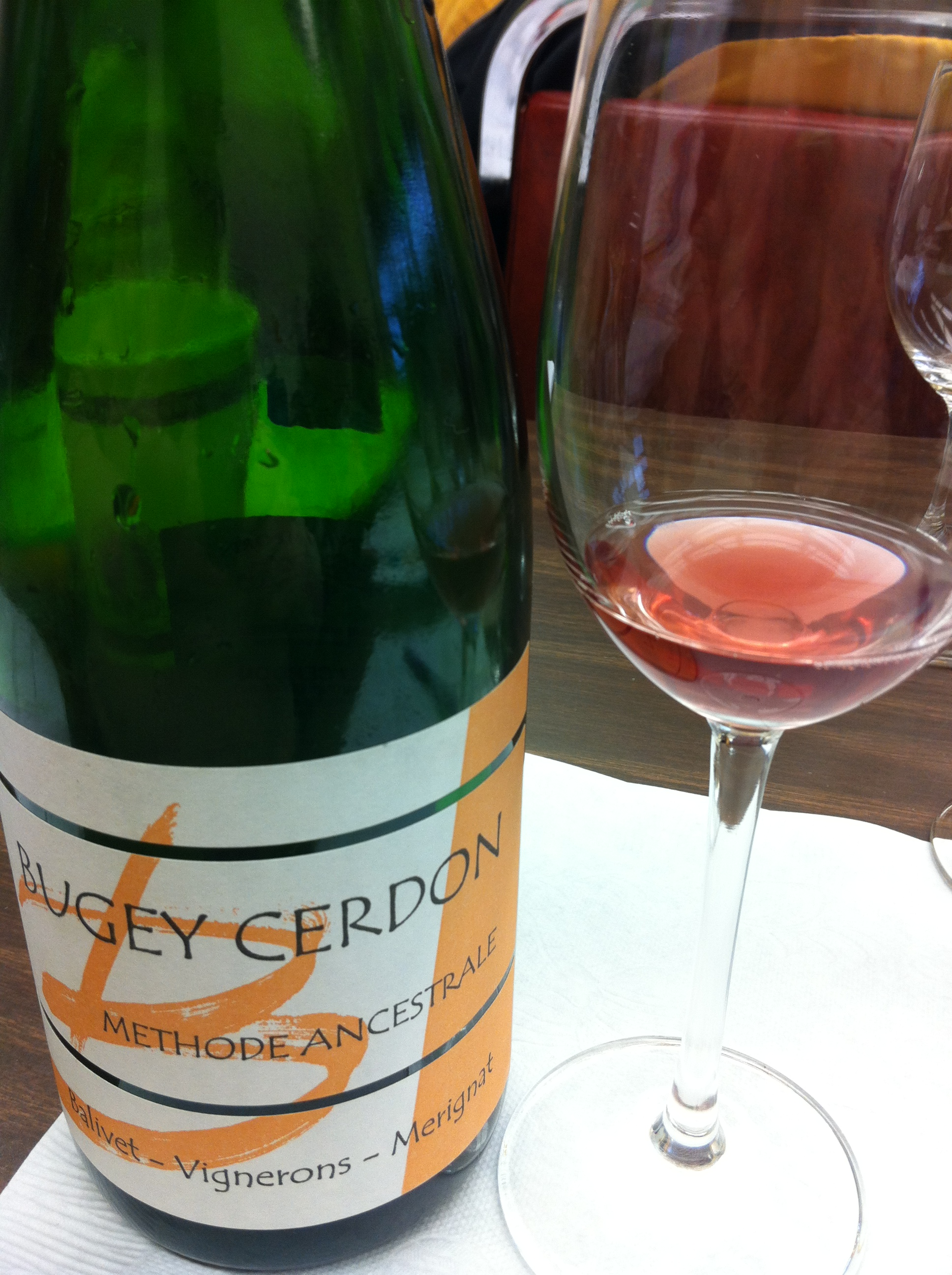 Sparkling rose made from Gamay and Poulsard grapes in the Bugey AOC in the town of Cerdon.